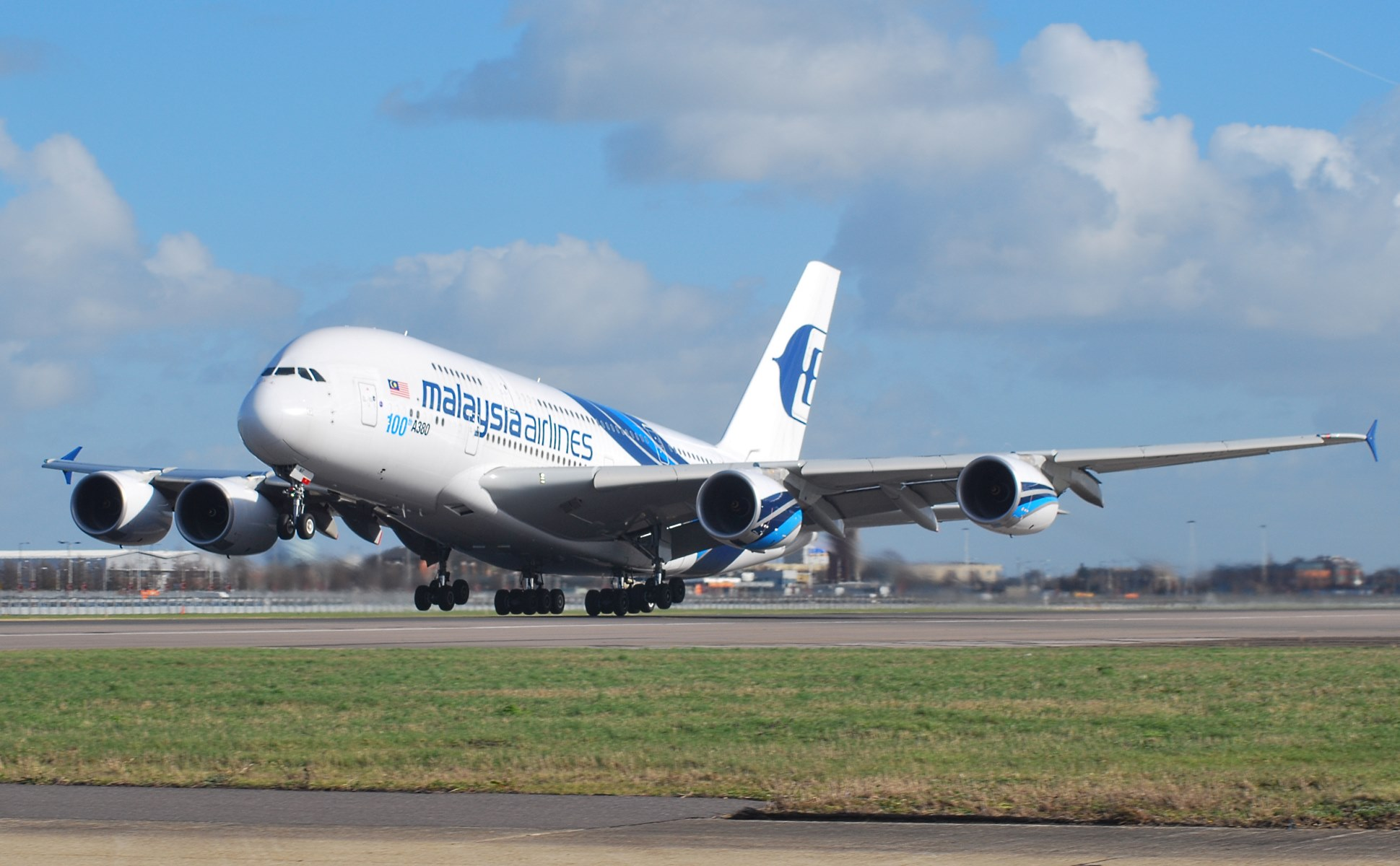 Getting airborne off 27 right,Malaysian Airlines Airbus A380 with additional 100th A380 titles.